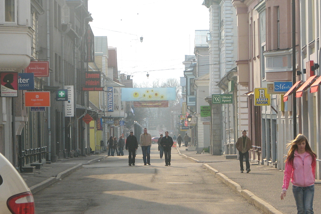 Rüütli tänaval, Location: Pärnu